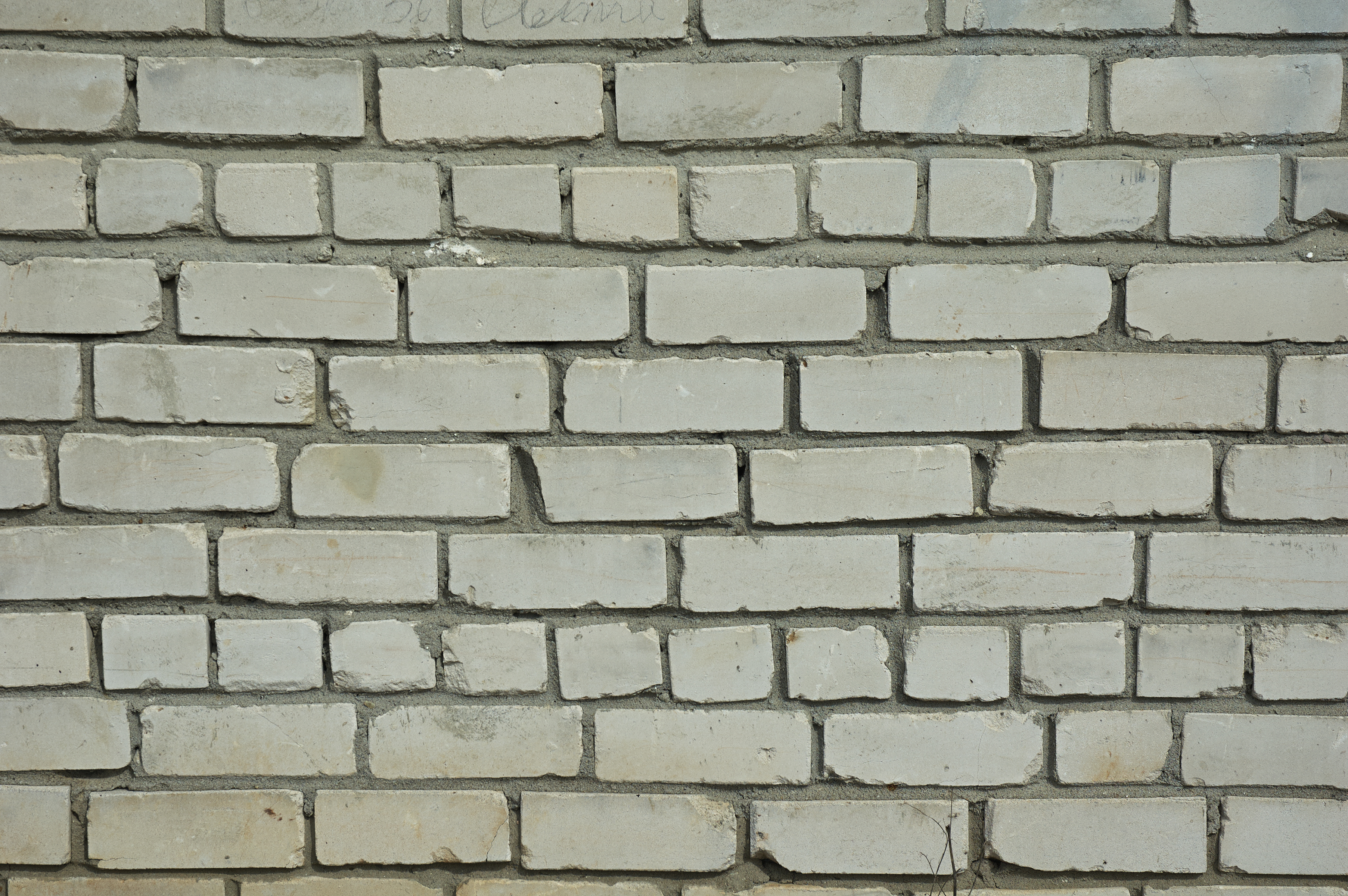 White brick - brickwork.